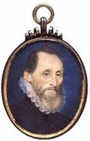 Henry Stanley, 4th Earl of Derby (1531-1593)